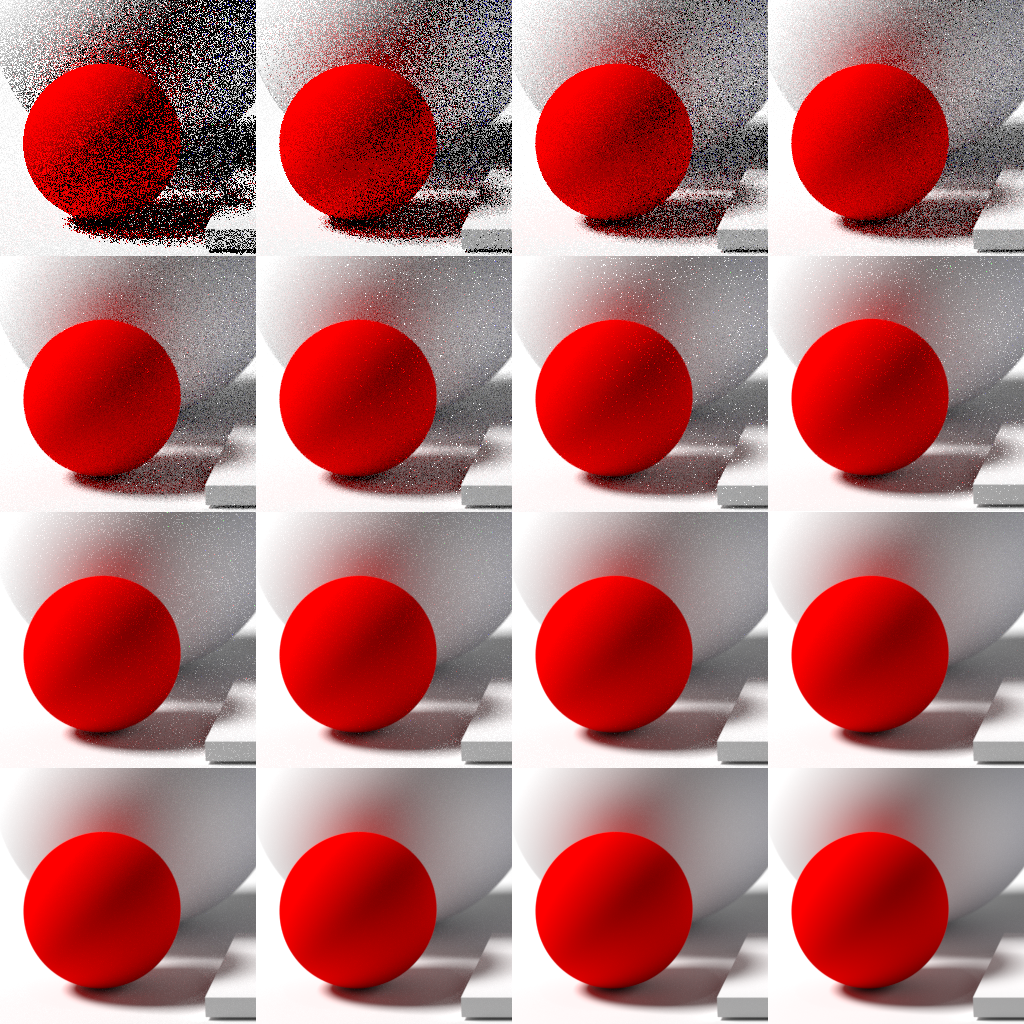 Each image uses a different samples per pixel value, starting at 1 sample per pixel and doubling from left to right to 32,768 samples.